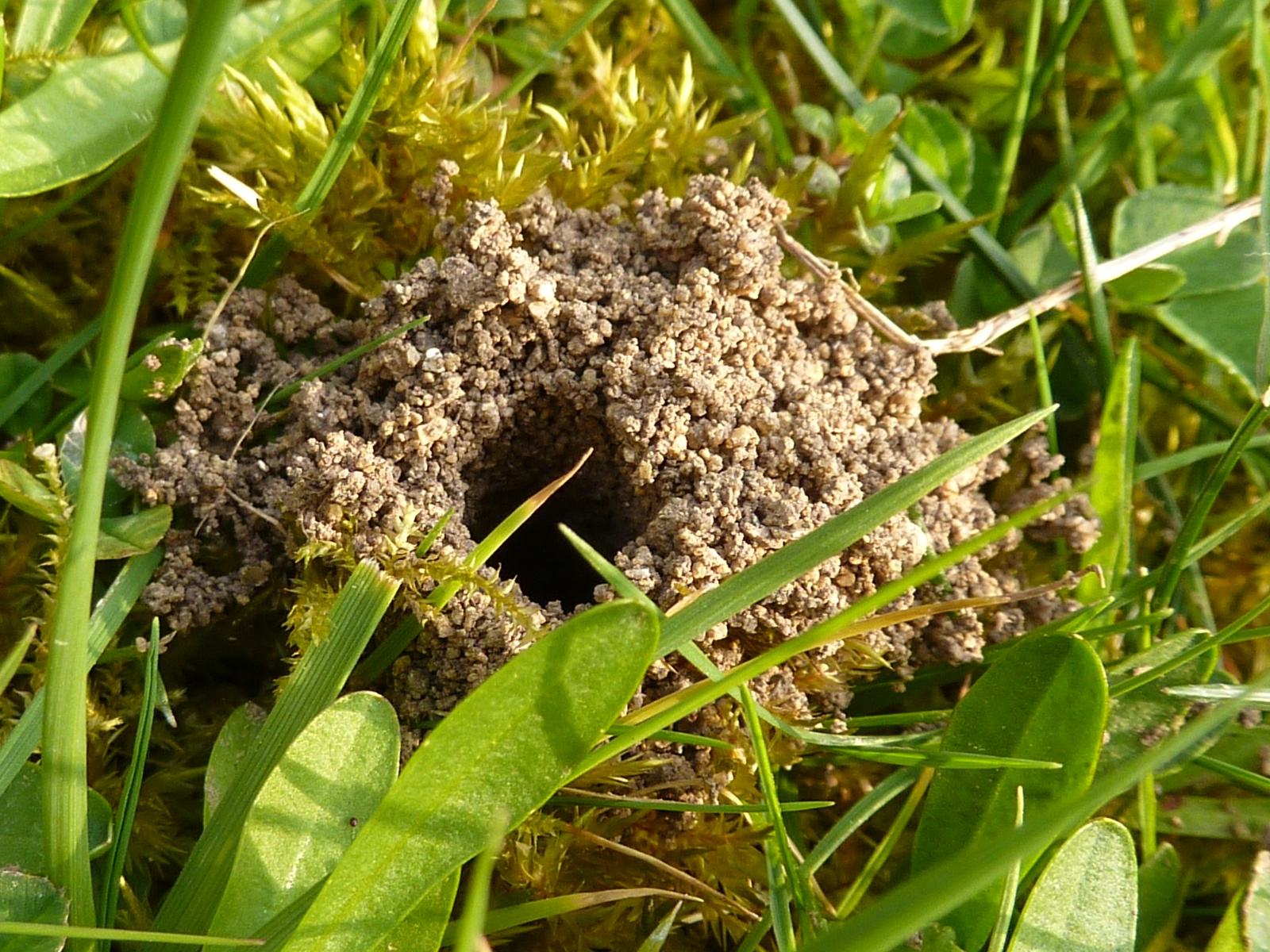 Do not worry if you have tiny volcano-shaped bees nests in the lawn about now. Tawny Mining Bees nest individually and are harmless. They are useful spring pollinators of fruit trees and bushes. The female digs a nest and lays eggs in cells that she has already filled with a food supply of pollen and nectar for the hatching larvae to feed on. The larvae that hatch remain underground and pupate later in the spring. The bees hybernate underground through the summer, autumn and winter to emerge from the ground as adults the following spring, ready to help next year's fruit crop set. Males are the first to emerge. Once the females have arrived, the males mate and then die. This nest appeared on 27th March 2011 in a Winchester garden lawn along with half a dozen others. Photos on 28th March2011.